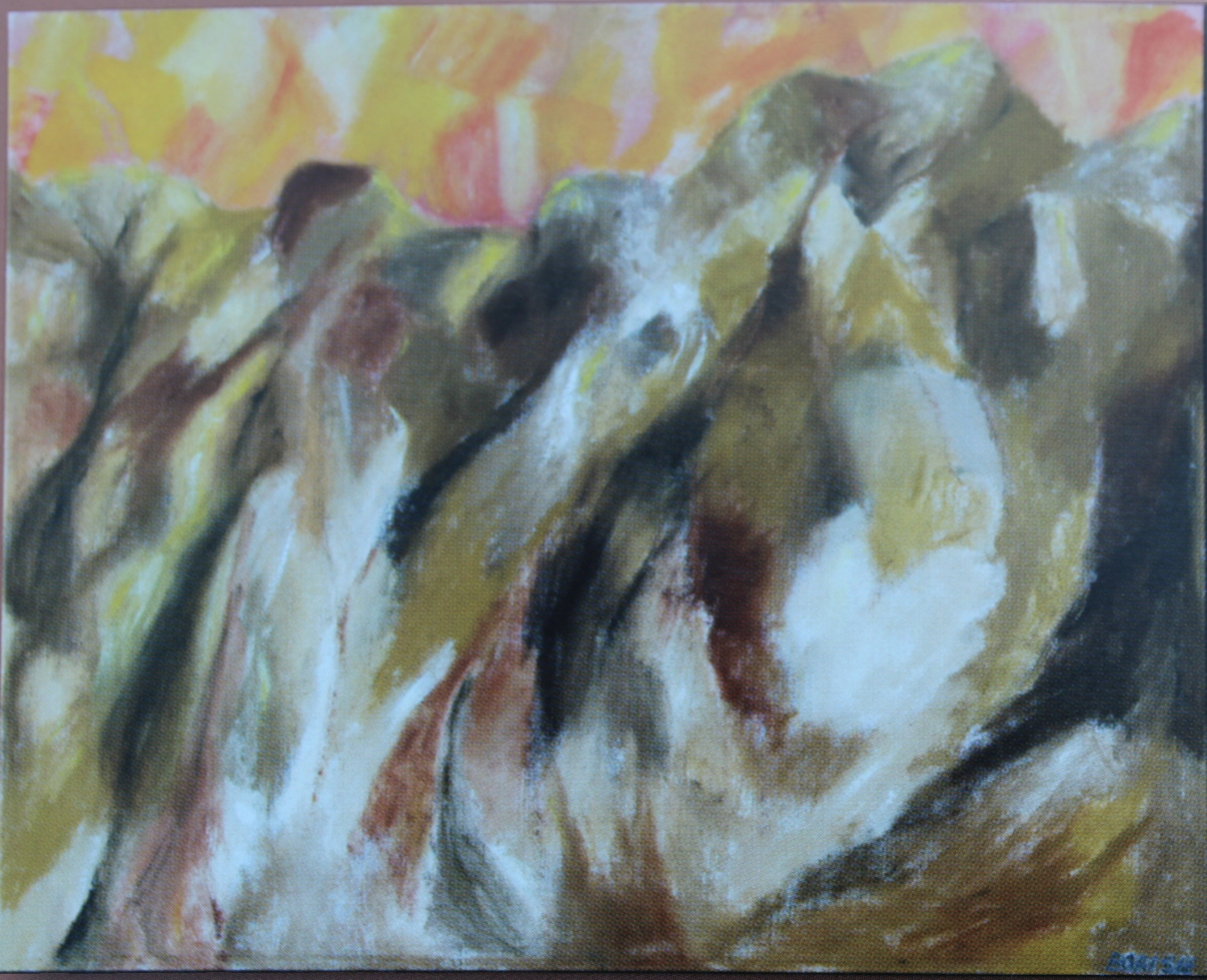 Photo of an Early Abstract painting by Irvin Borish from 1965. Collection of Irv Borish.